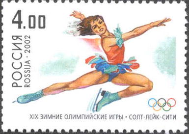 Russian stamp no. 724, commemorating the 2002 Winter Olympics.